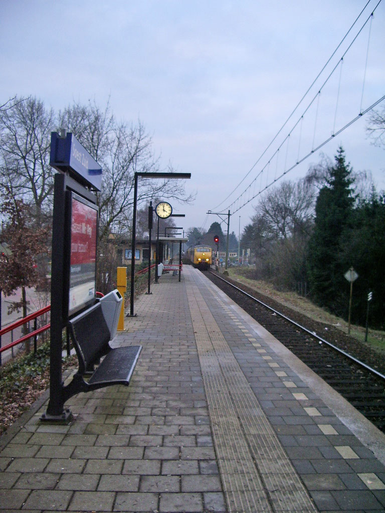 Soest Zuid Railway station